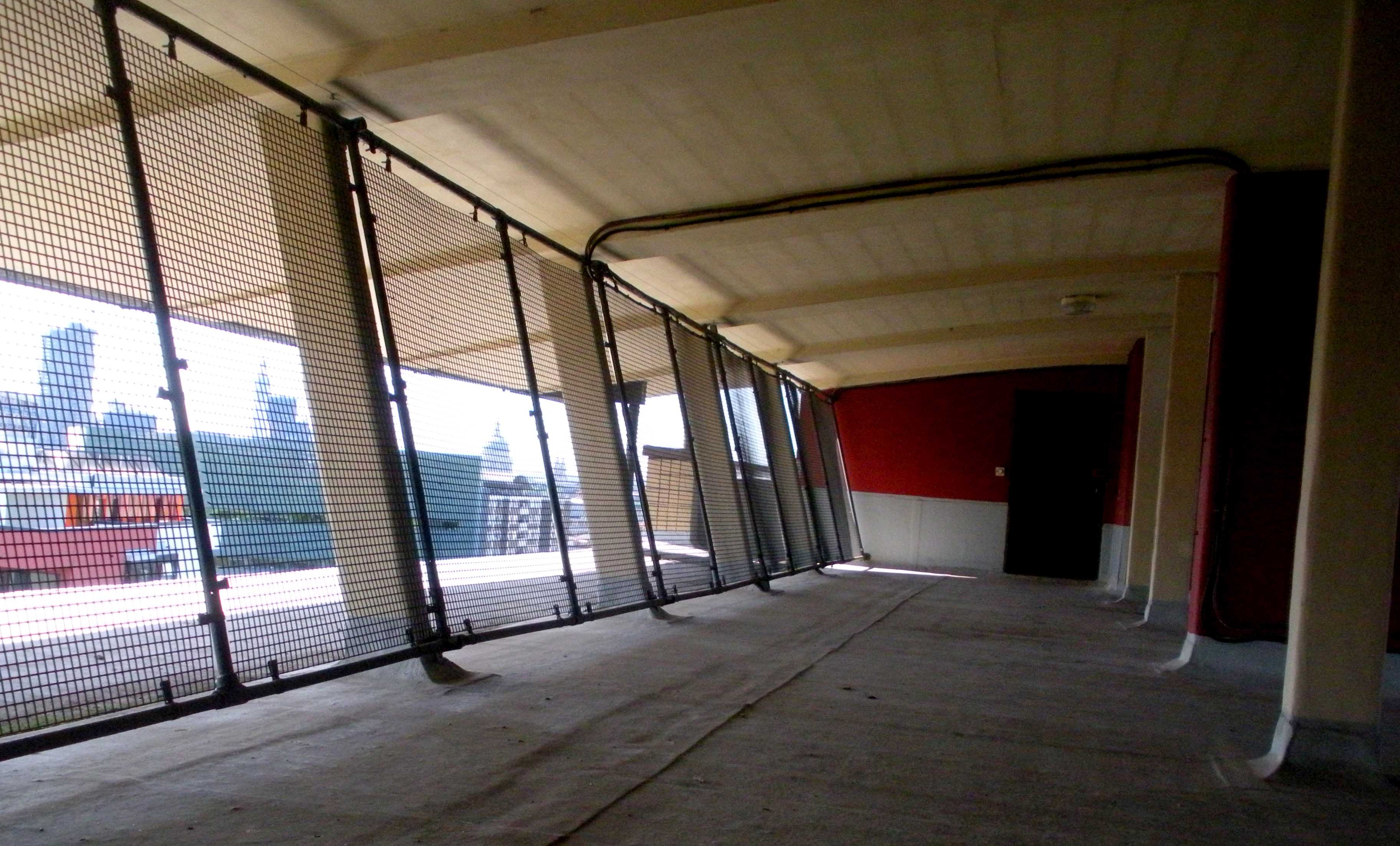 aerodynamic concrete canopy designed to dry washing